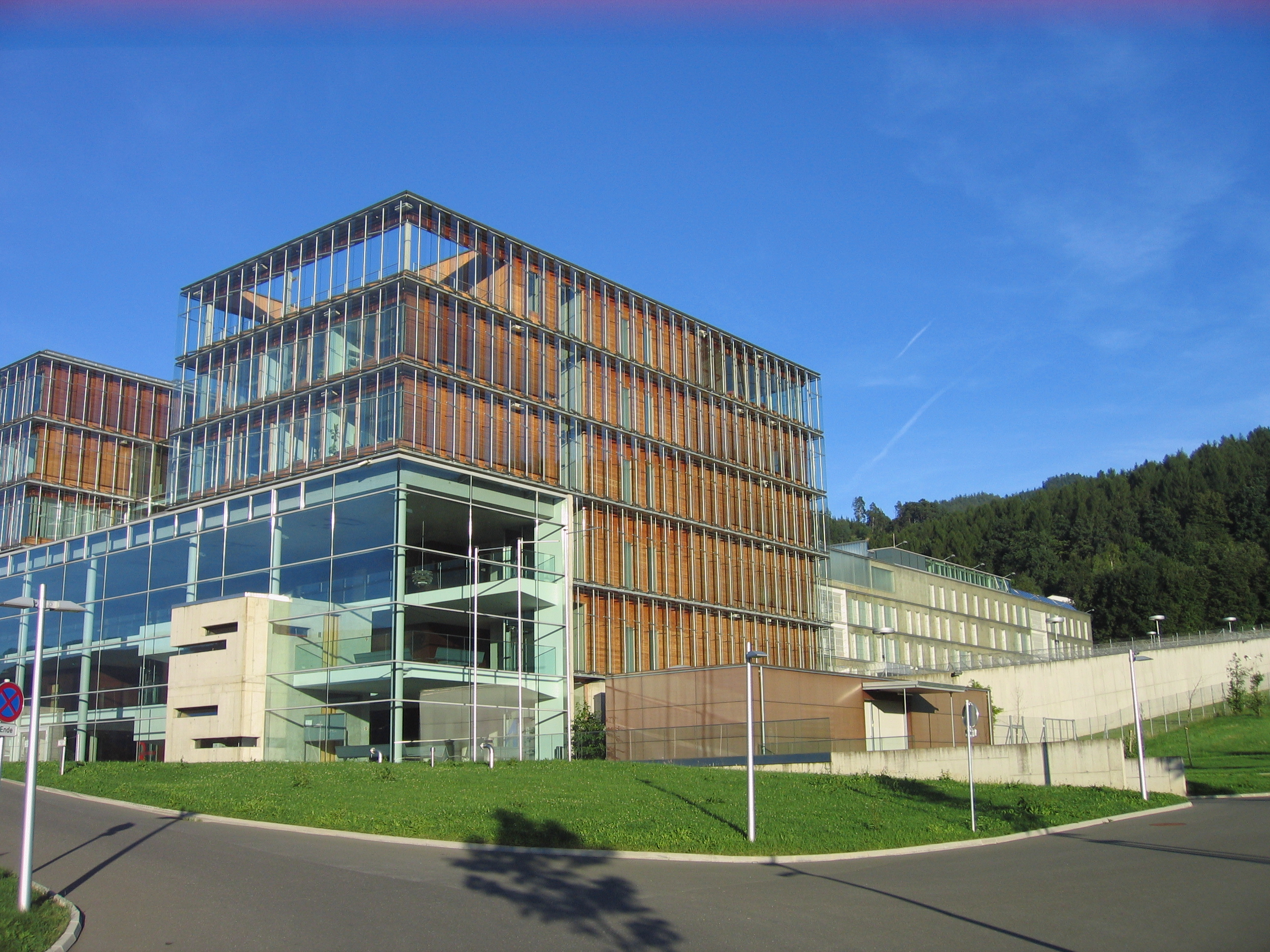 The building of the county court and penitentiary Leoben (Styria, Austria). Focus is on the prison-wing of the building.